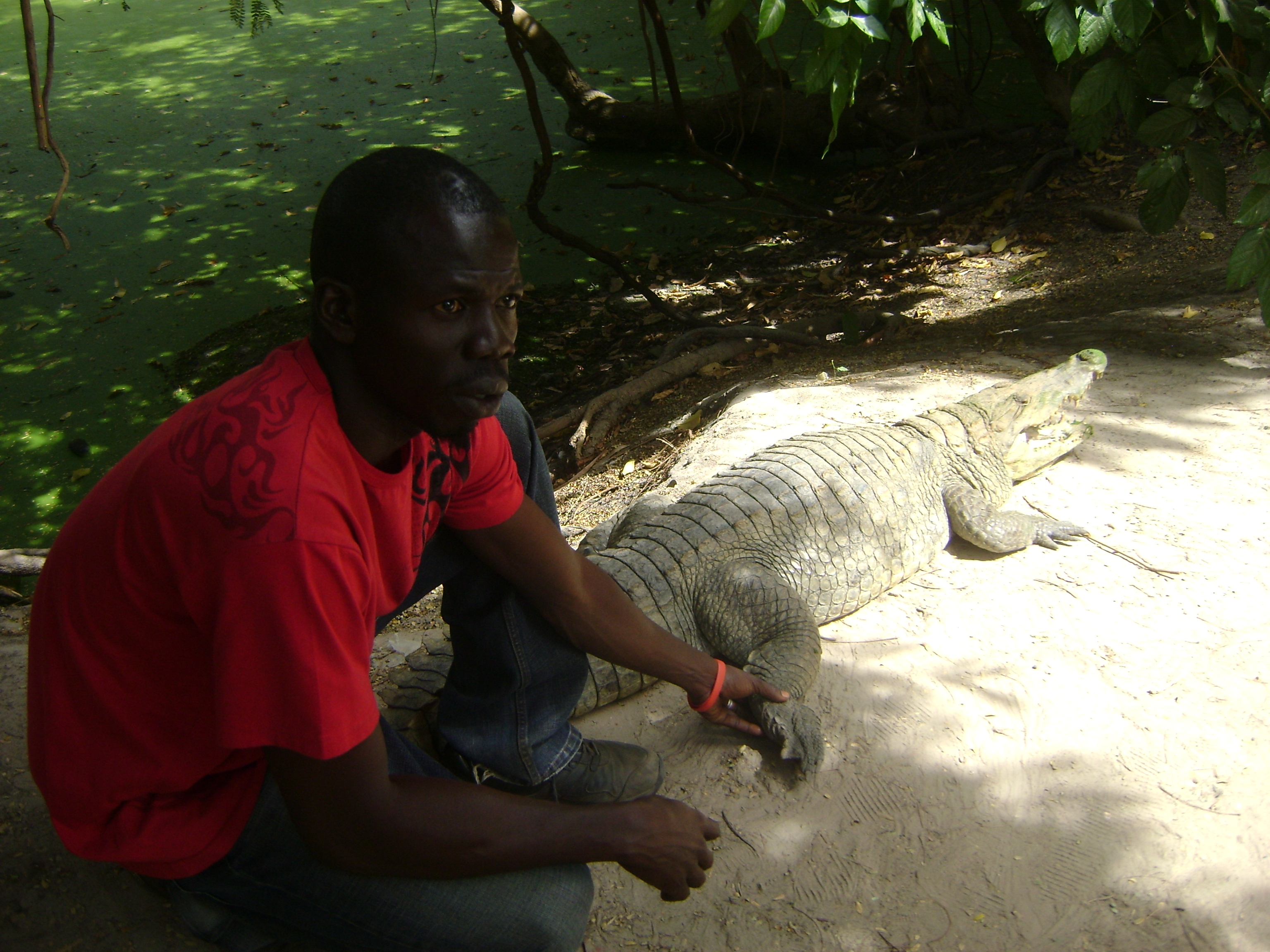 A guide shows tourists that the crocodiles can be touched.